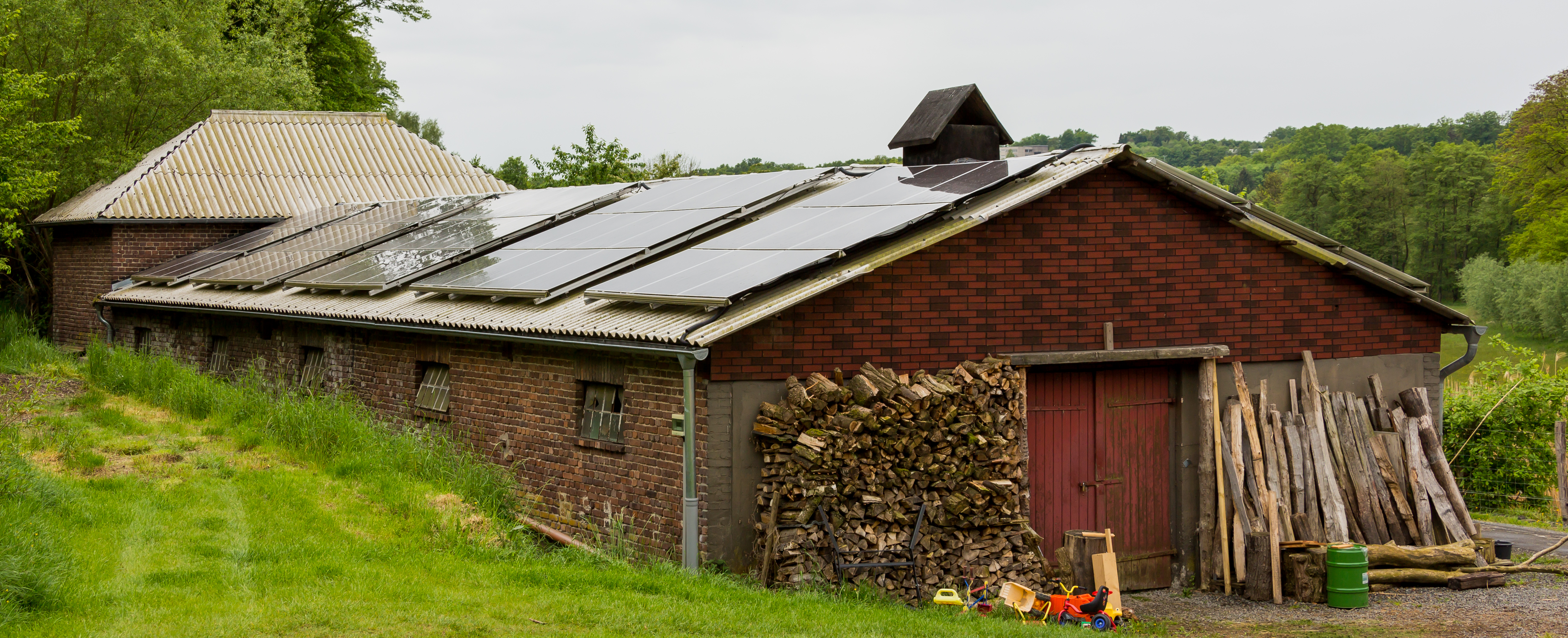 Rösrath, Deutschland: Horse Stable, belonging to listed building No 7: "Haus Stade"